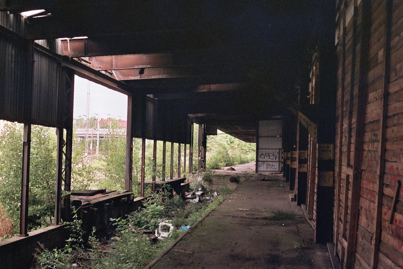 A view from the warehouses at the railway station of Tampere, Finland. The warehouses were demolished in August–September 2009.